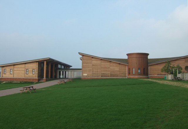 Brading Roman Villa Beautiful modern building housing the mosaics and walls of a 3rd century Roman villa.